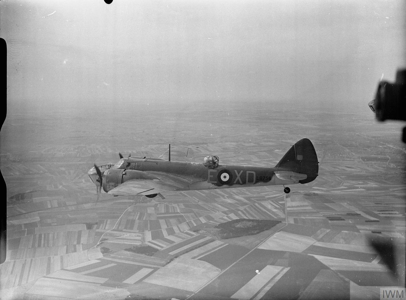 Blenheim Mark IV, L8756 ‘XD-E’ of No. 139 Squadron RAF, based at Plivot, France, in flight over northern France.